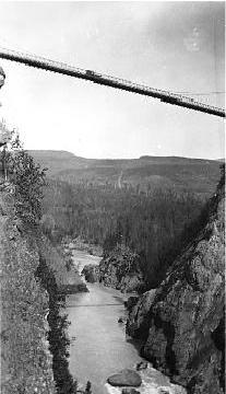 Photographer: Unknown Photo taken:1926 Source:P982.30.53[1]